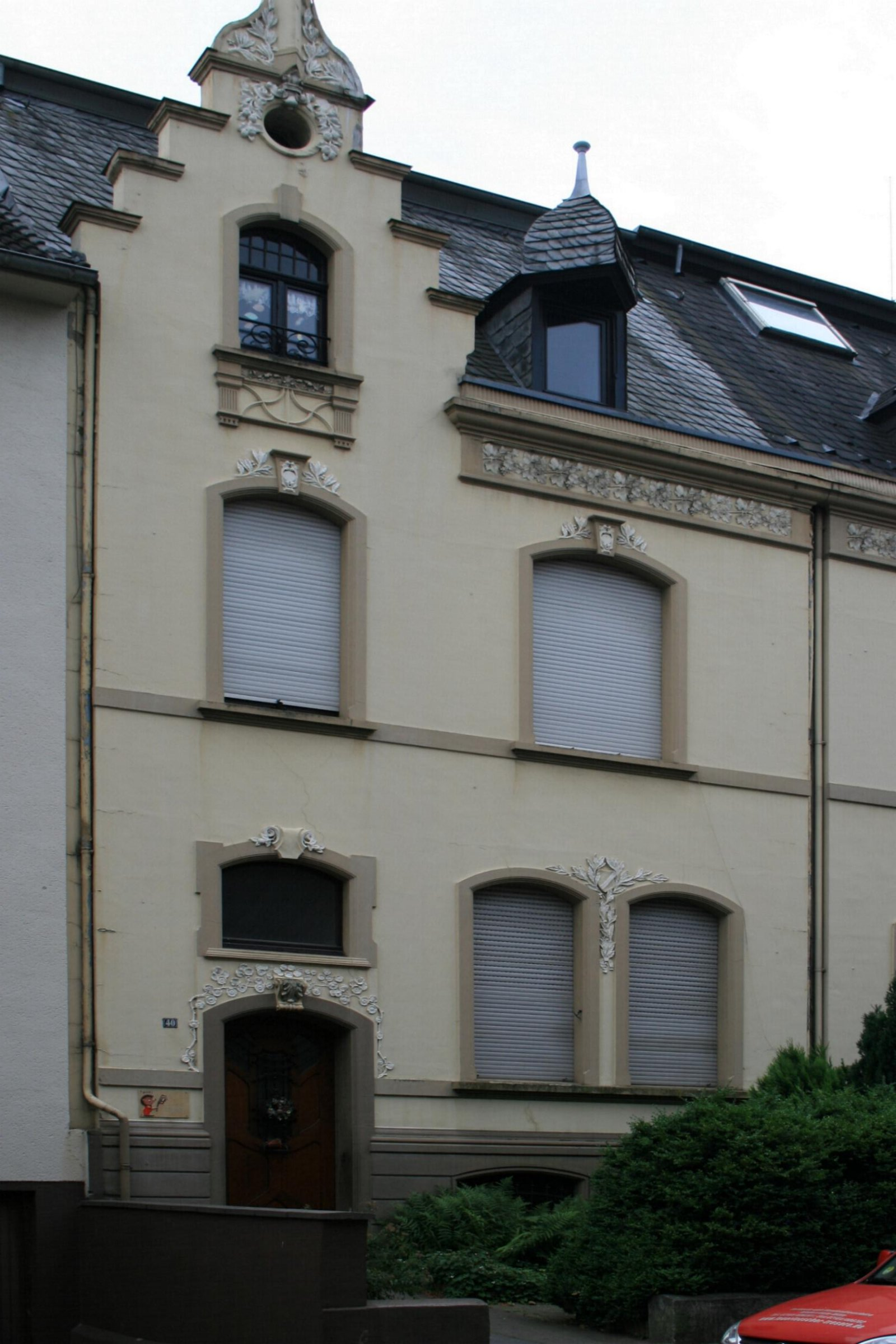 Cultural heritage monument No. W 020 in Mönchengladbach